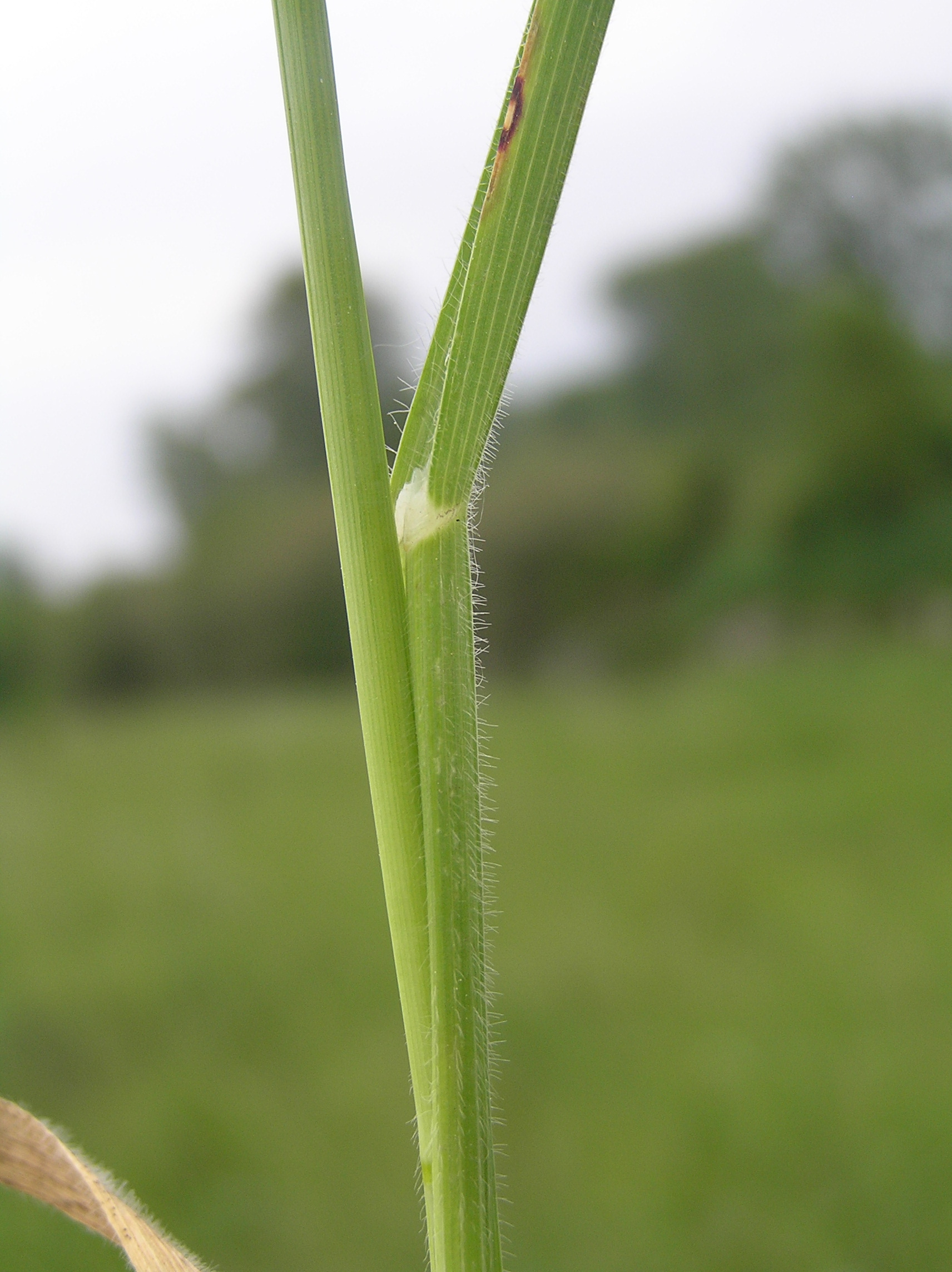 Avenula pubescens, Dub nad Moravou, Moravia, Czech Republic